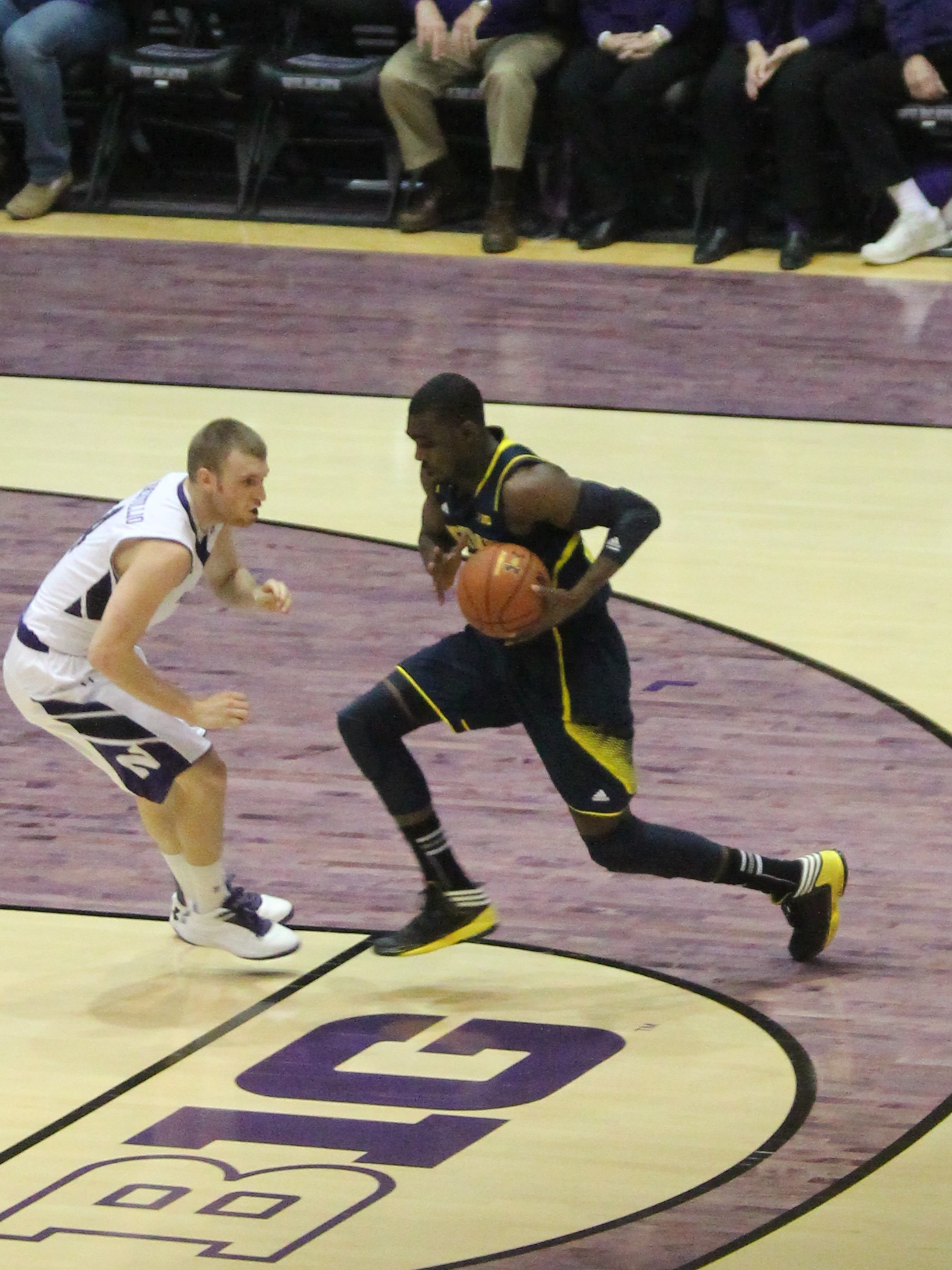 Tim Hardaway, Jr. of the w:2012–13 Michigan Wolverines men's basketball team on a fast break against w:2012–13 Northwestern Wildcats men's basketball team draws a foul.